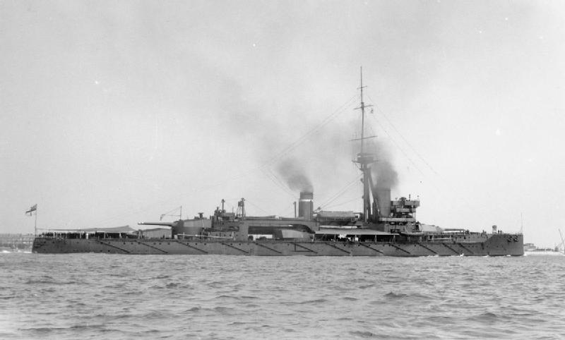 Symonds and Co Collection HMS HERCULES